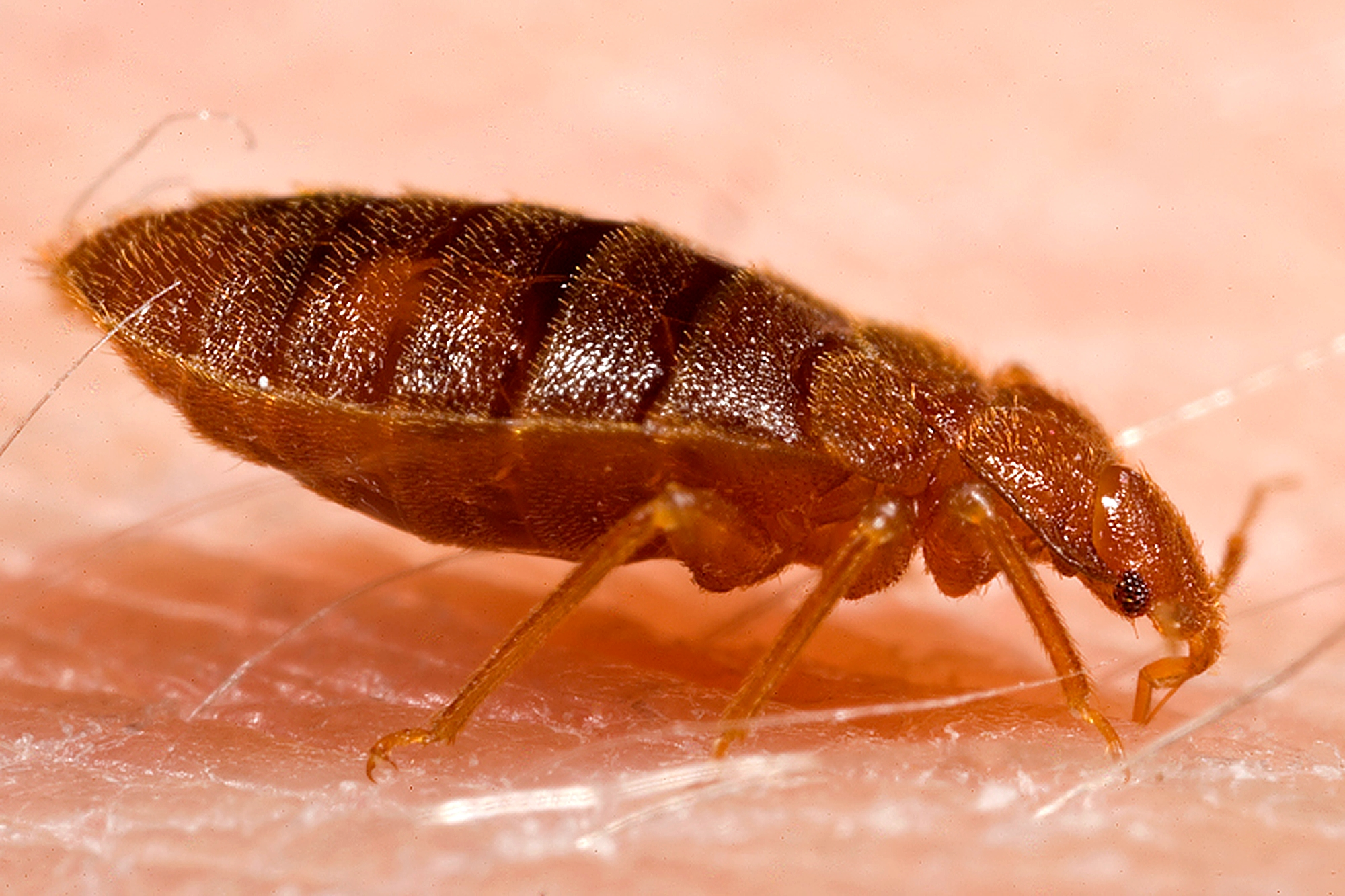 ID#: 9820 This 2006 photograph depicted a lateral view of an adult bed bug, Cimex lectularius, as it was in the process of ingesting a blood meal from the arm of a “voluntary” human host. Bed bugs are not vectors in nature of any known human disease. Although some disease organisms have been recovered from bed bugs under laboratory conditions, none have been shown to be transmitted by bed bugs outside of the laboratory. Bed bug bites are difficult to diagnose due to the variability in bite response between people, and due to the change in skin reaction for the same person over time. It is best to collect and identify bed bugs to confirm bites. Bed bugs are responsible for loss of sleep, discomfort, disfiguring from numerous bites and occasionally bites may become infected. The common bed bug C. lectularius is a wingless, red-brown, blood-sucking insect that grows up to 7 mm in length and has a lifespan from 4 months up to 1 year. Bed bugs hide in cracks and crevices in beds, wooden furniture, floors, and walls during the daytime and emerge at night to feed on their preferred host, humans. The common bed bug is found worldwide. Infestations are common in the developing world, occurring in settings of unsanitary living conditions and severe crowding. In North America and Western Europe, bed bug infestations became rare during the second half of the 20th century and have been viewed as a condition that occurs in travelers returning from developing countries. However, anecdotal reports suggest that bed bugs are increasingly common in the United States, Canada, and the United Kingdom.